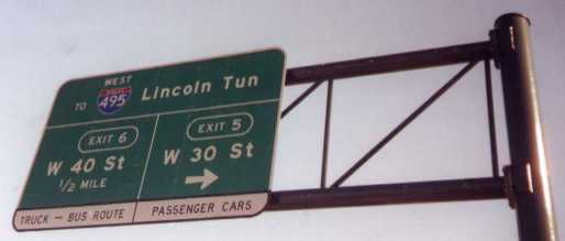 NY 9A northbound exit 5. Taken March 27, 2001 by User:SPUI.